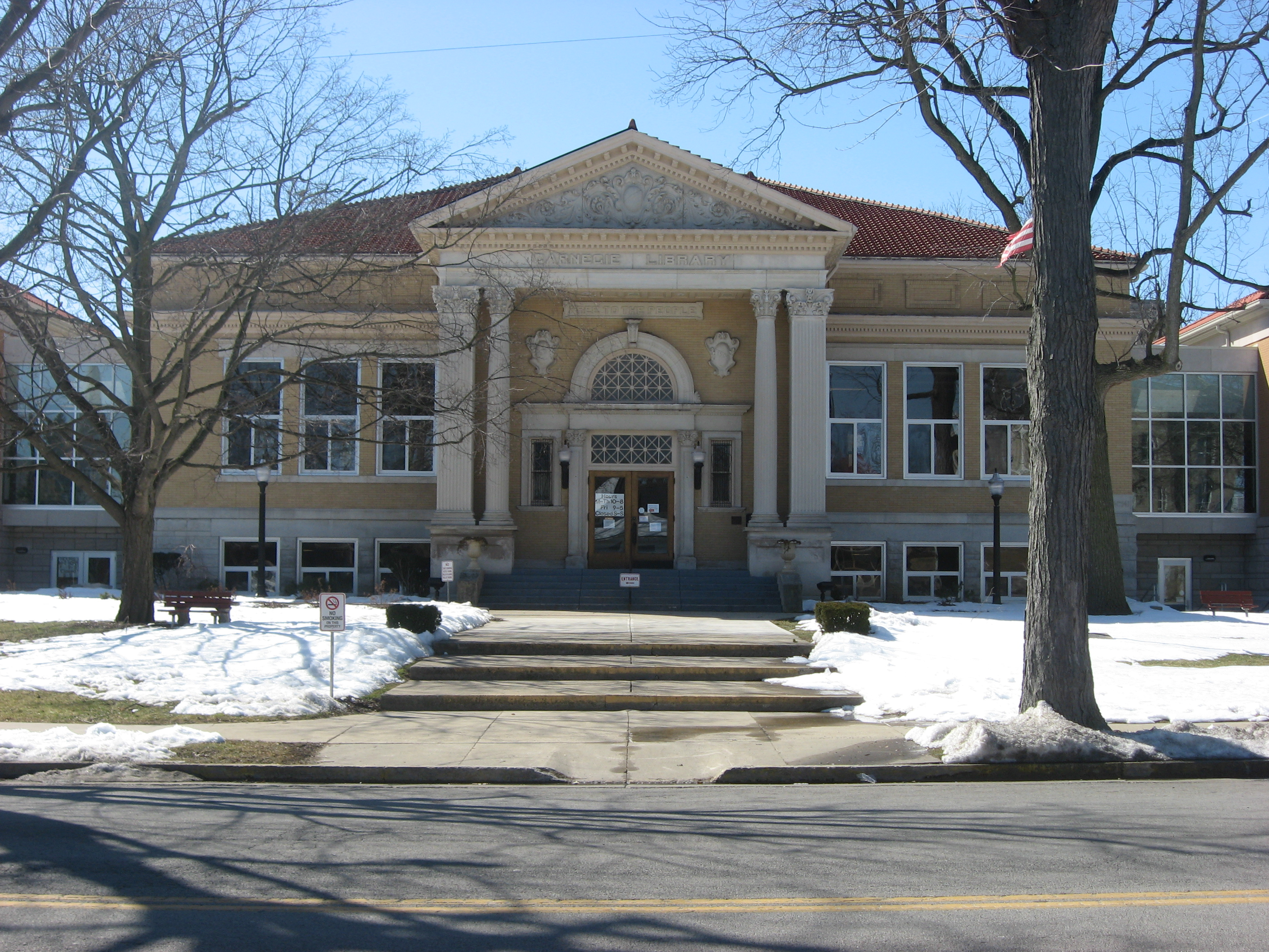 Front of the Greenville Carnegie Library, located at 520 Sycamore Street in Greenville, Ohio, United States. Built in 1901, it is listed on the National Register of Historic Places.